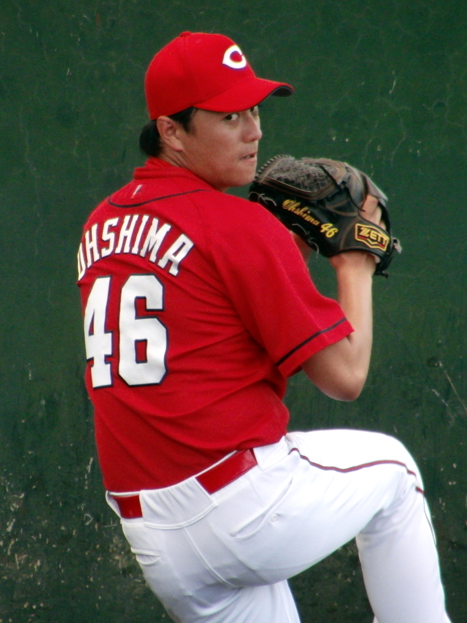 Takayuki Ohshima, pitcher of the Hiroshima Toyo Carp, at Gannosu Baseball Ground.